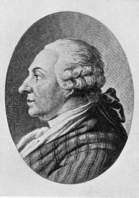 Johann Caspar Goethe